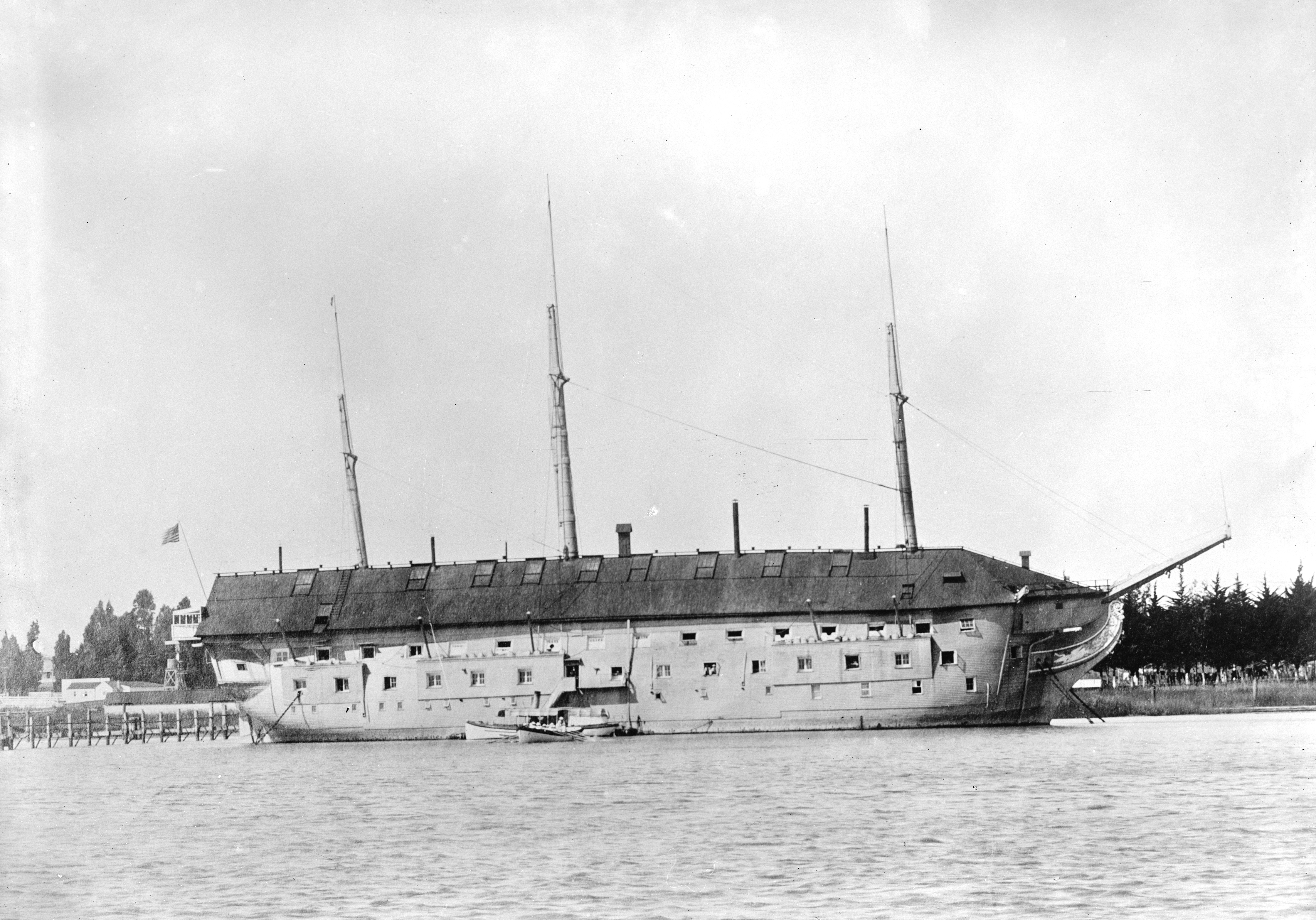 The former U.S. Navy ship of the line USS Independence at the Mare Island Navy Yard, California (USA), in the 1890s.